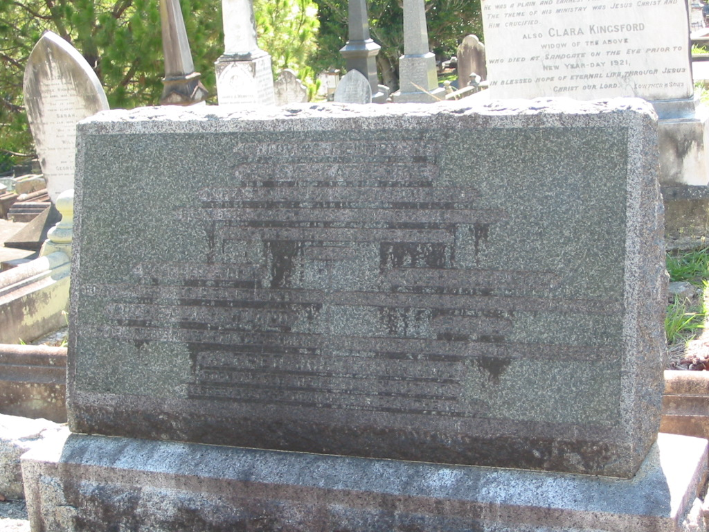 Headstone of Alfred John Raymond in Toowong Cemetery, Brisbane, Queensland, Australia